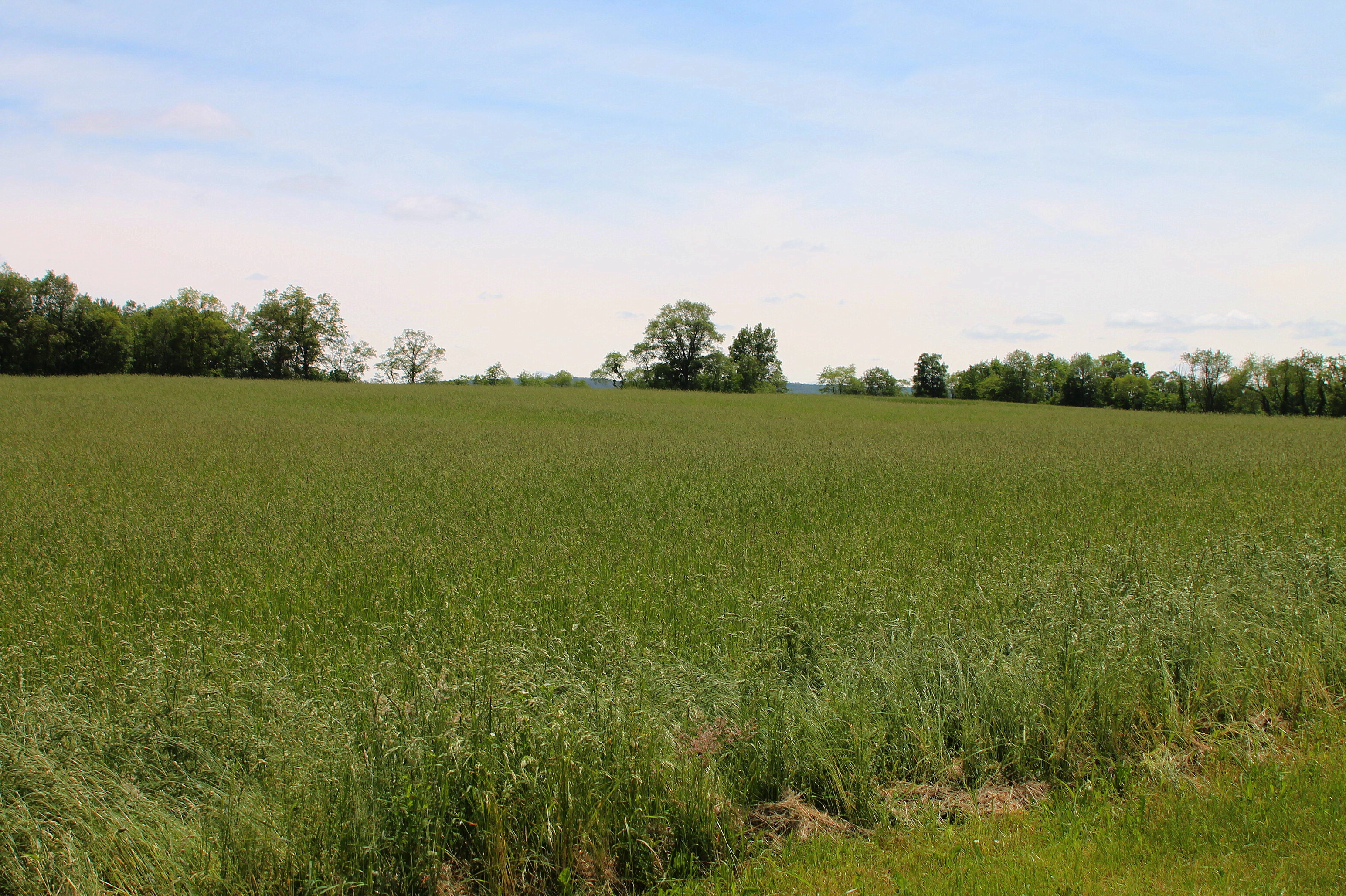 Field in Dorrance Township, Luzerne County, Pennsylvania as seen from Saint Marys Road.